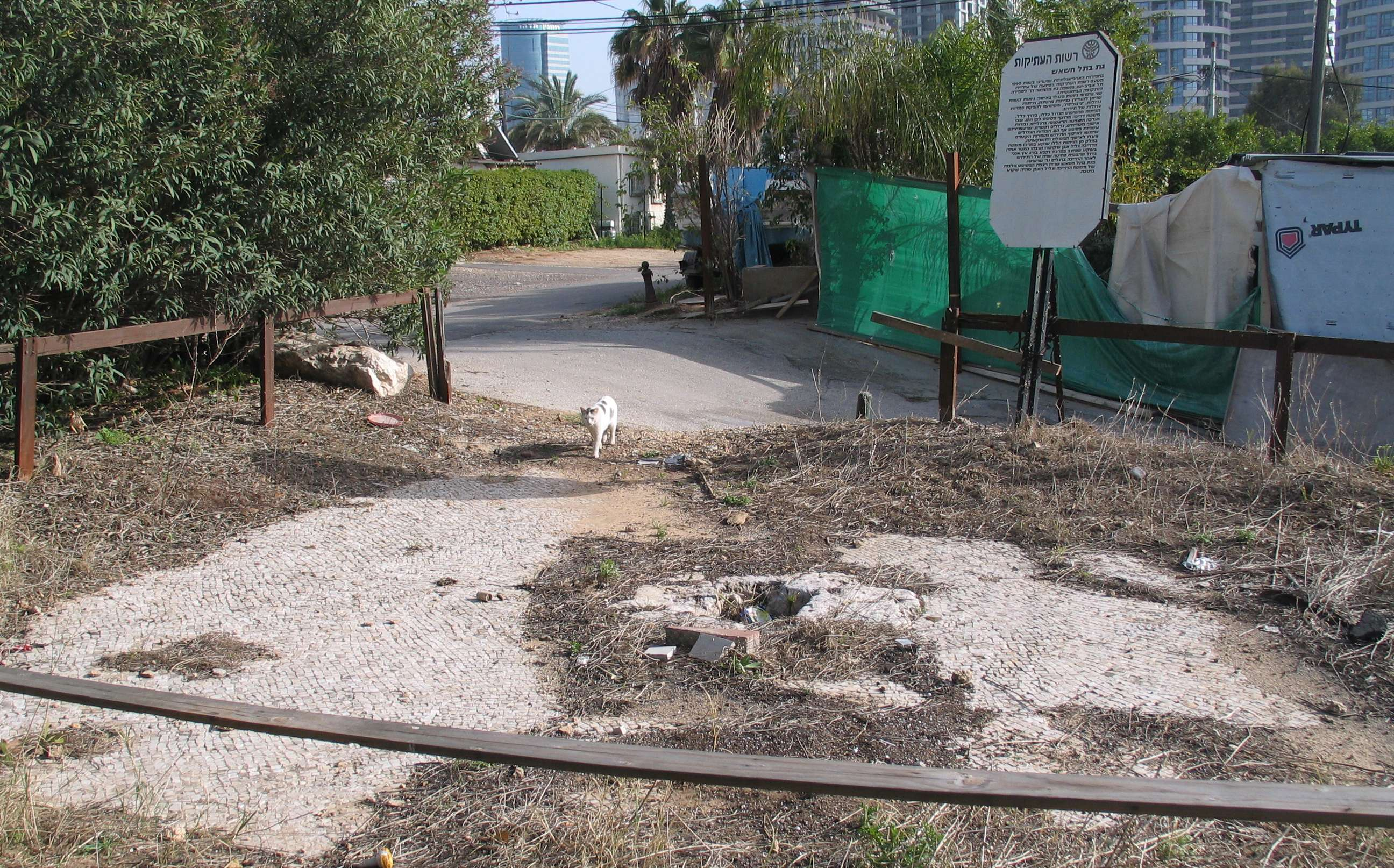 Byzantine wine press in Abramovich garden, Tel Aviv, Israel.